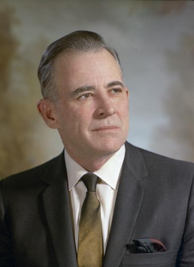 Representative S. E. (Sid) Flanagan, 1967